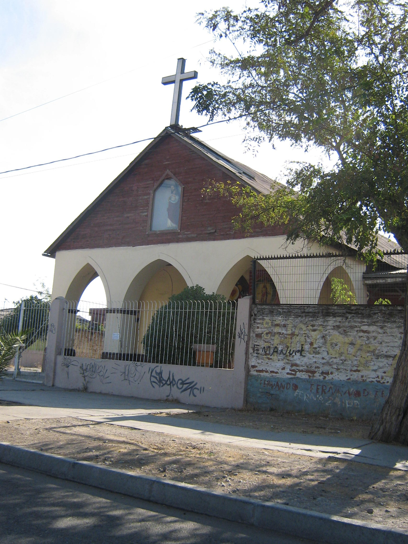 Sagrado Corazón de Jesus Church Lo Espejo Santiago-Chile South Comune